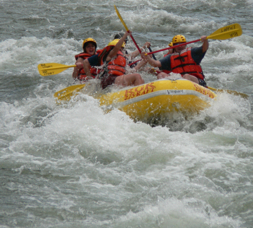 White Water Rafting on the Royal Gorge Section of the Arkansas River in Colorado near Canon City with Royal Gorge Rafting